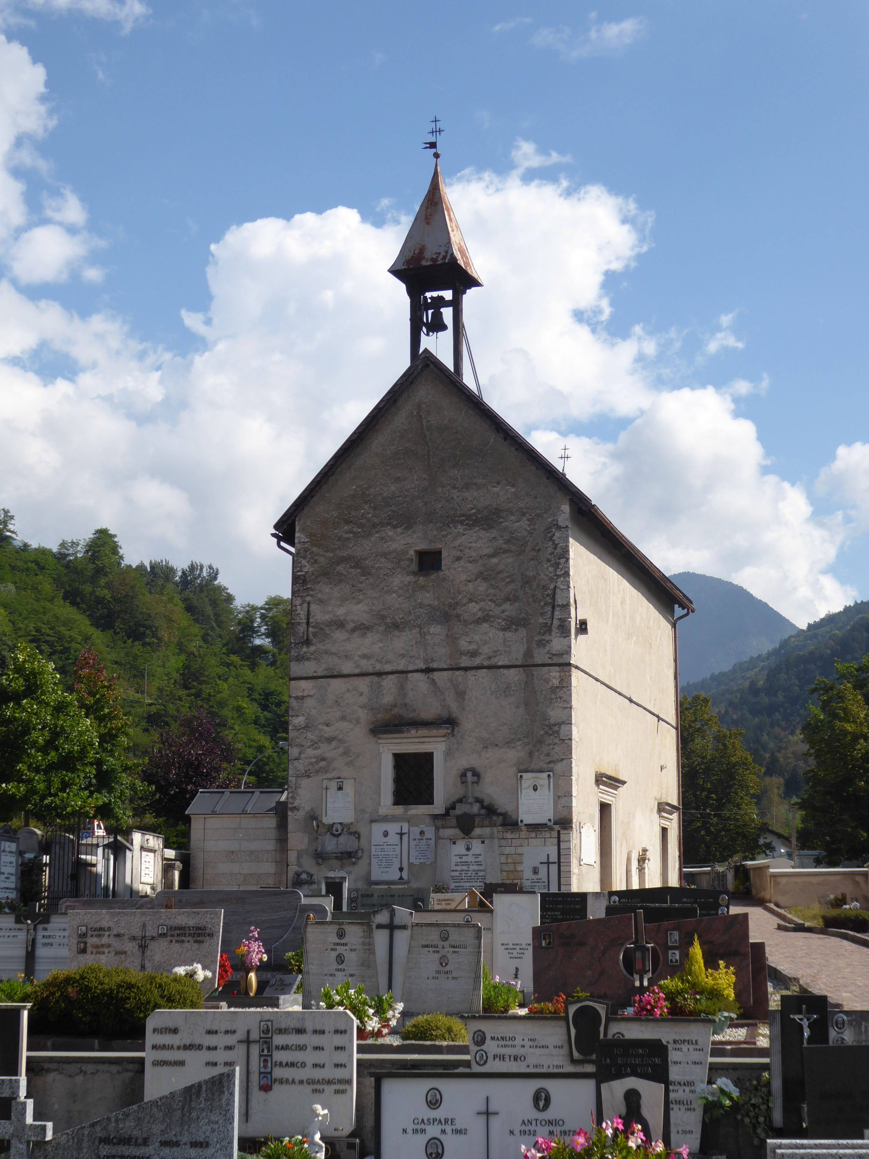 The church of Our Lady of Loreto in th graveyard of Strigno (Trentino, Italy)